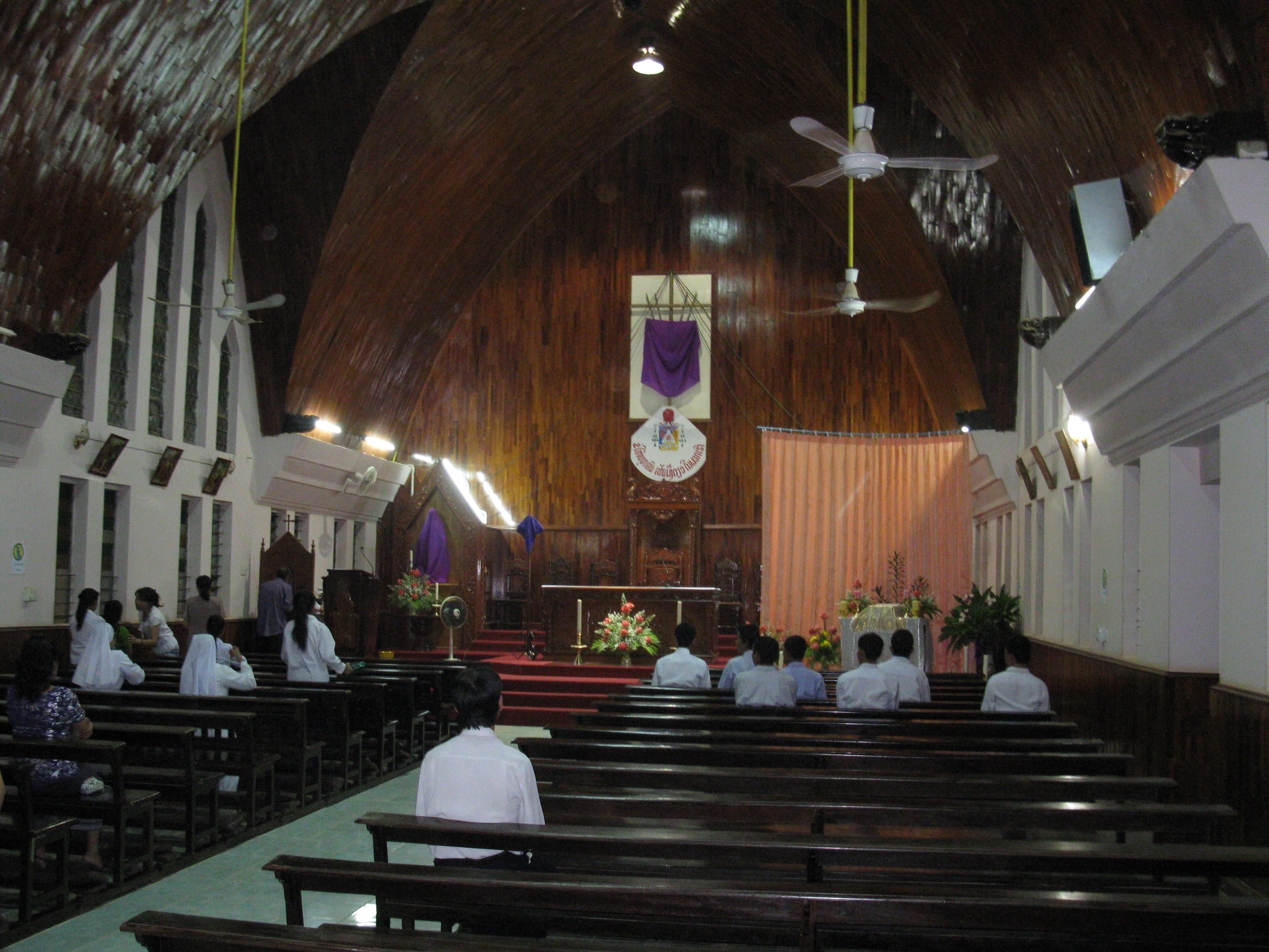 Catholic Church, City of Thakhek, Laos.